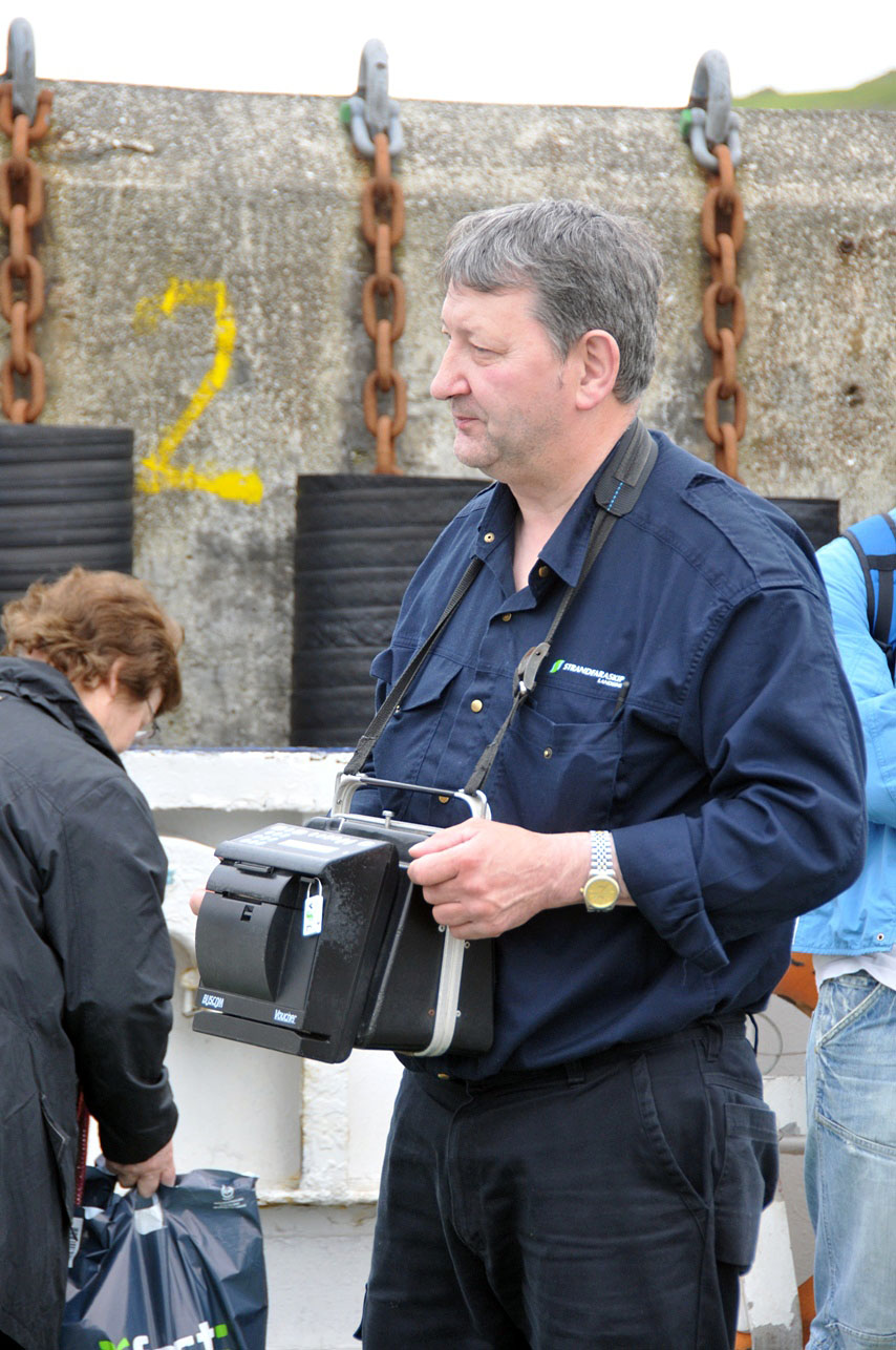 Ferry to Kalsoy, Faroe Islands